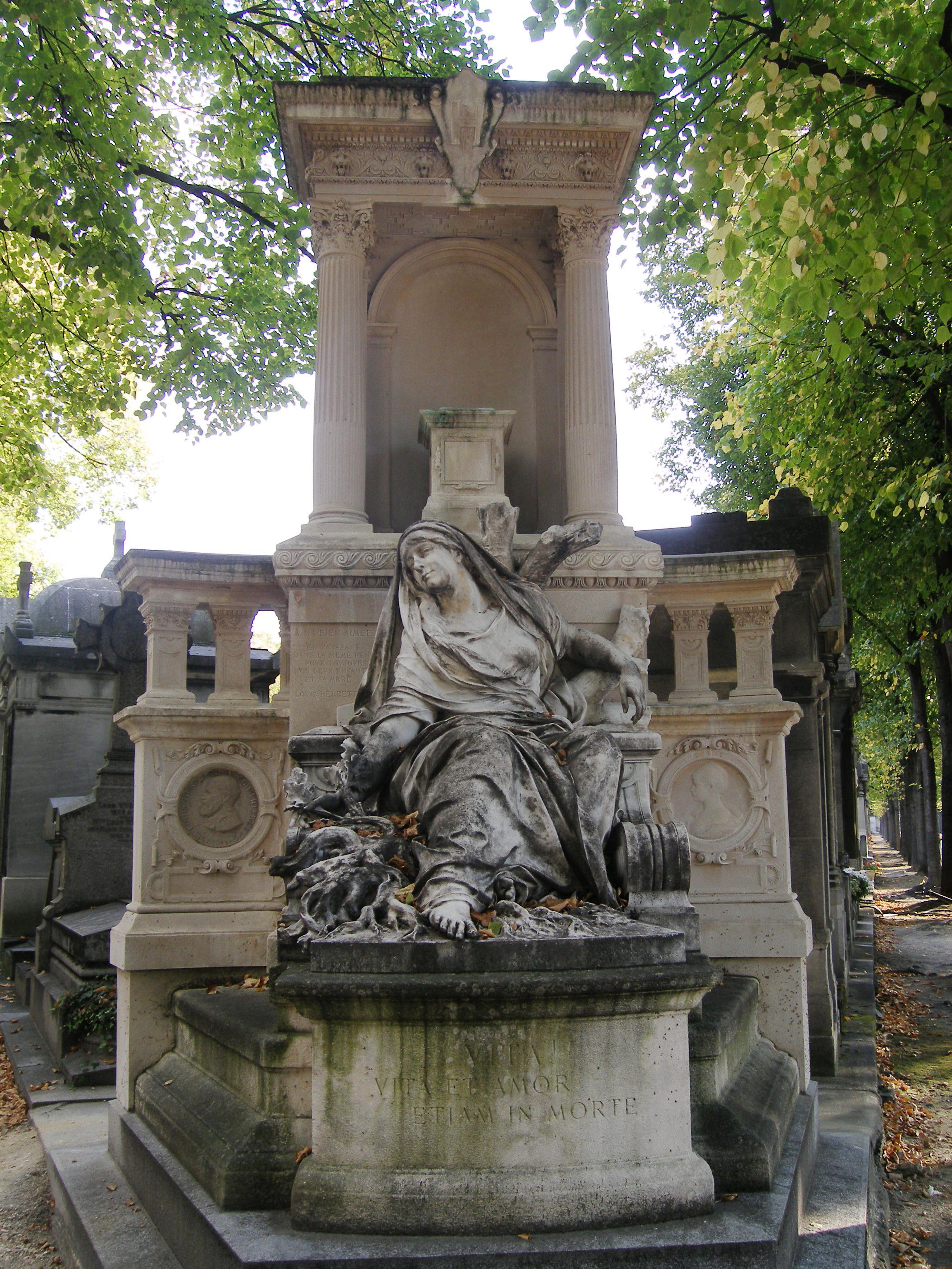 Herbette's family tomb - Cimetery Montparnasse, 28th division - Paris. Oscar Roty, Jules Coutan, Léon-Eugène longepied, Henri Poussin